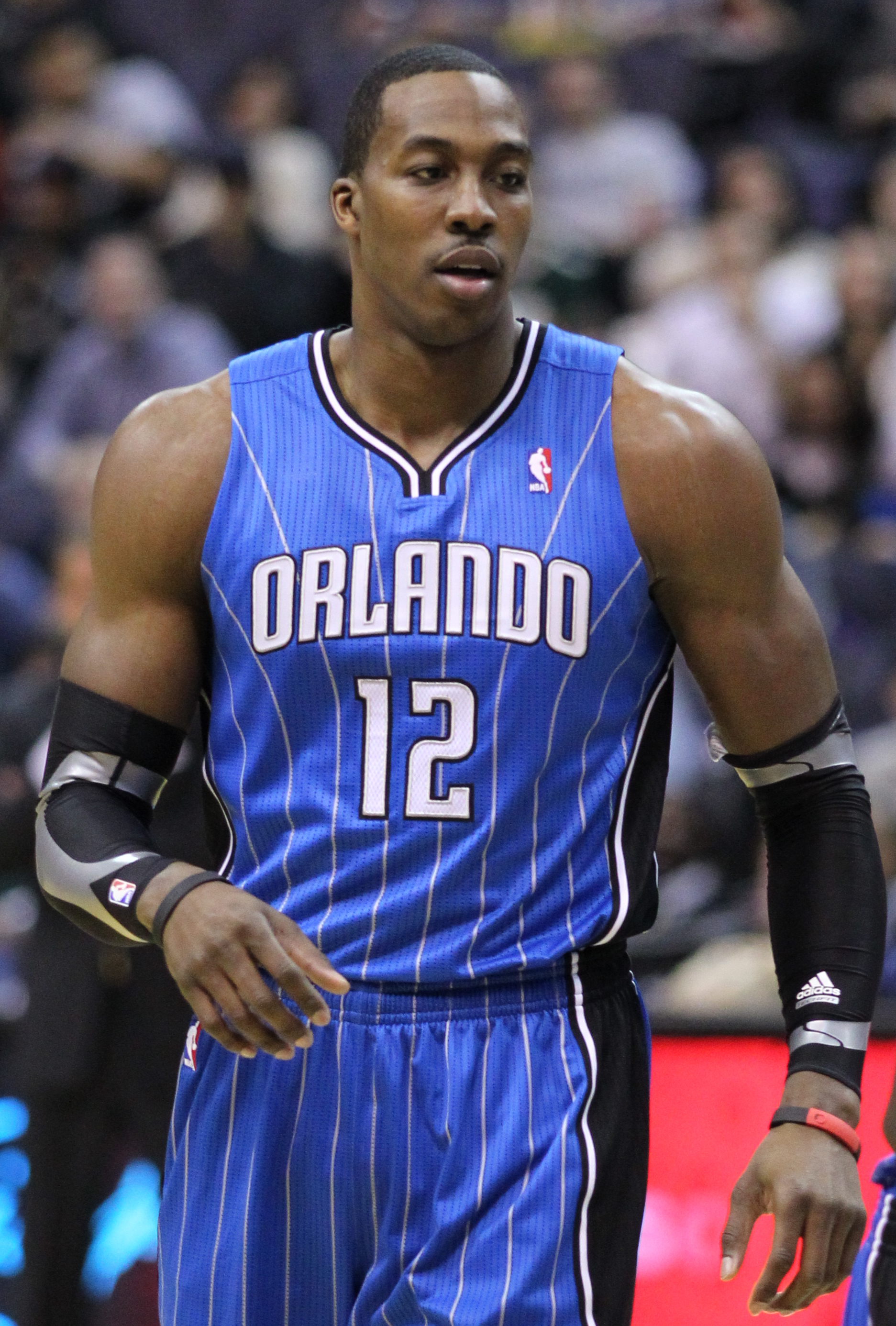 Washington Wizards v/s Orlando Magic February 4, 2011